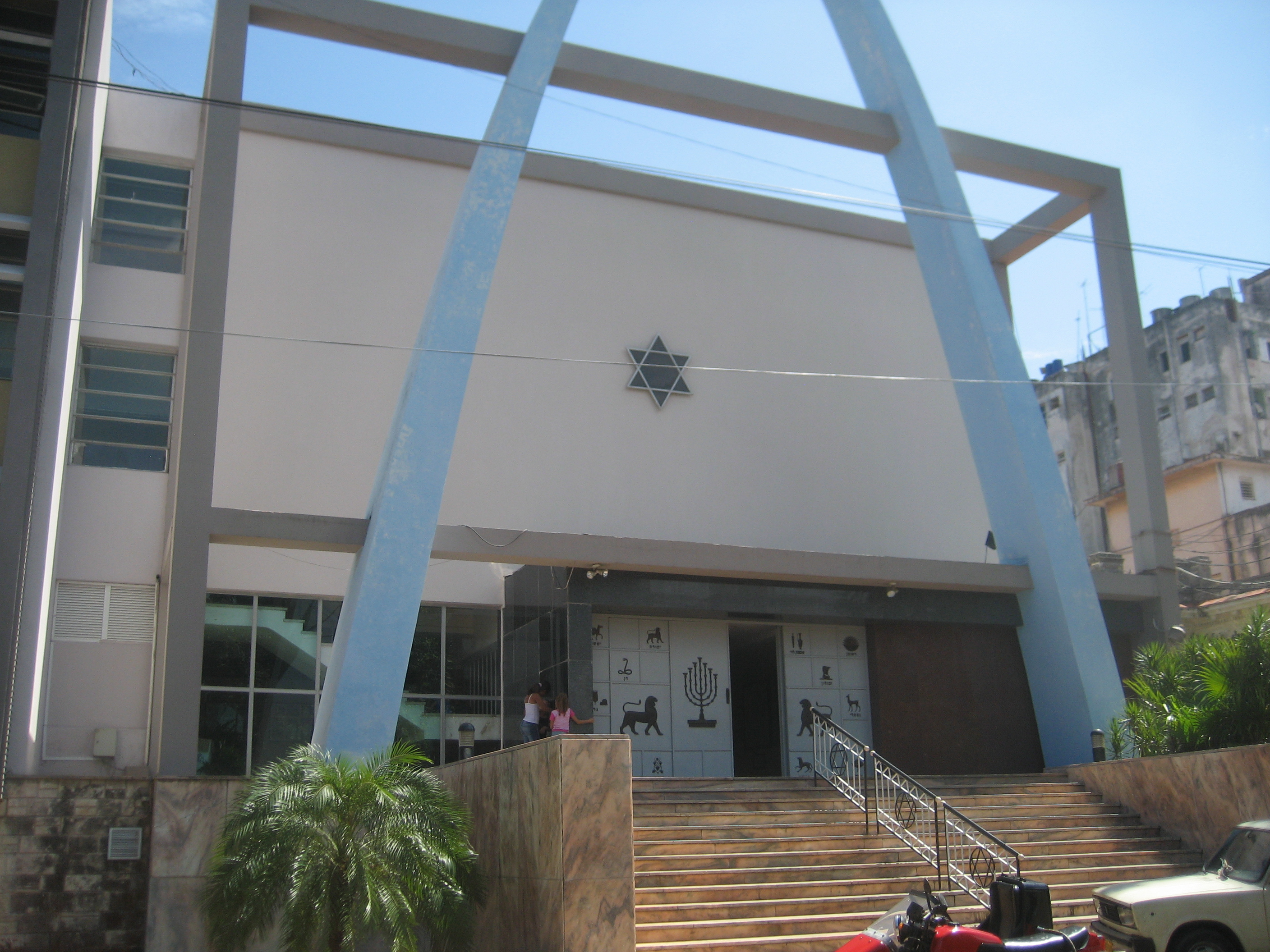 Exterior of Templo Beth Shalom in Havana, Cuba.